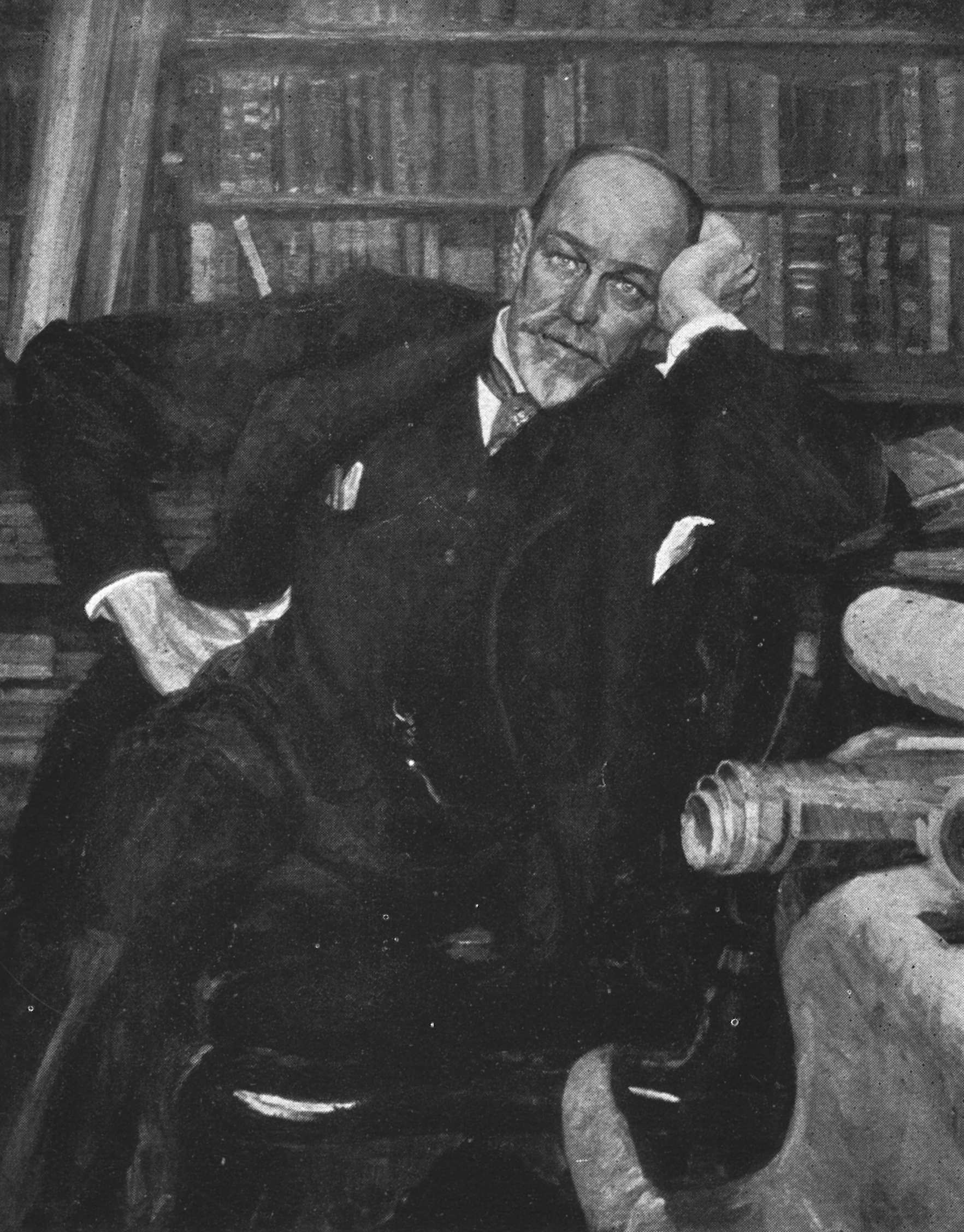 Gustaf Ekman (1852–1930), Swedish chemist, hydrographer, industrialist and doner.